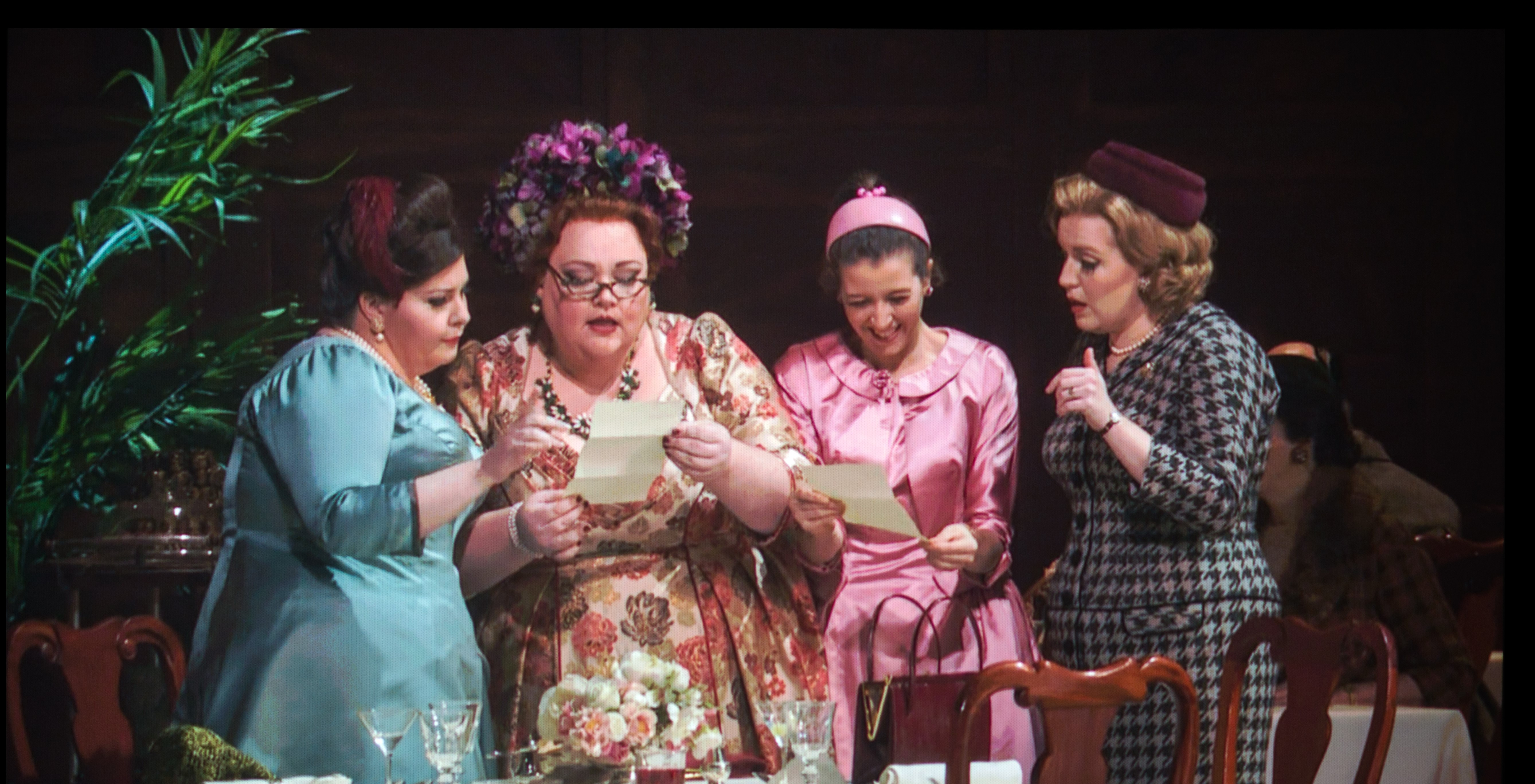 The Metropolitan Opera presents Falstaff, December 2013